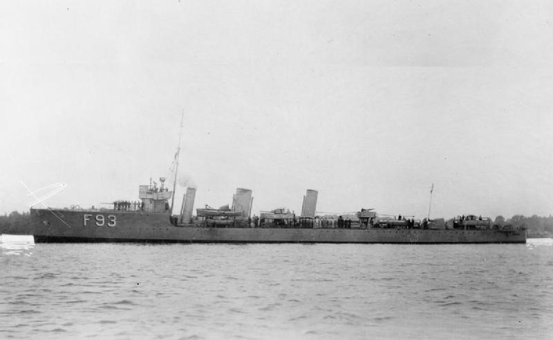 Photograph of British R class destroyer HMS Teazer.